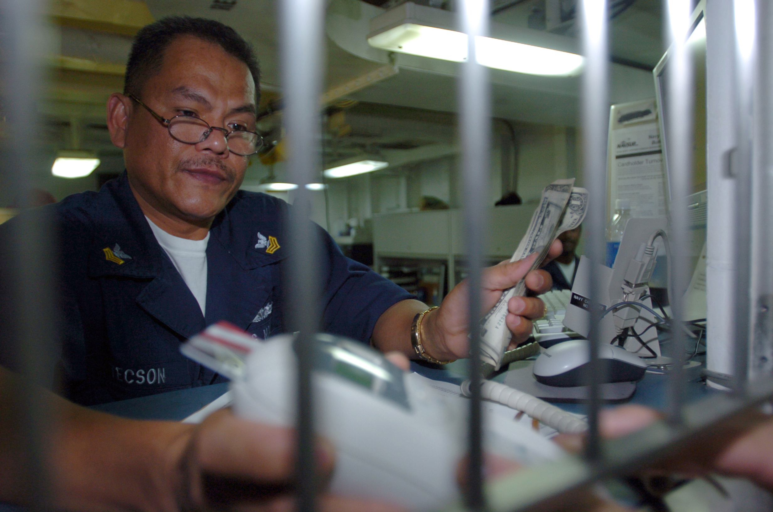 Pacific Ocean (Mar. 1, 2005) - Disbursing Clerk 1st Class Gene Tecson holds a keypad for a customer to enter his Navy Cash Card personal identification number aboard the amphibious assault ship USS Peleliu (LHA 5). The system eliminates cash and coins from the entire ship and instead requires Sailors to add money from their personal bank accounts to one of two systems held on the cash card. U.S. Navy photo by Journalist 3rd Class Zack Baddorf (RELEASED)